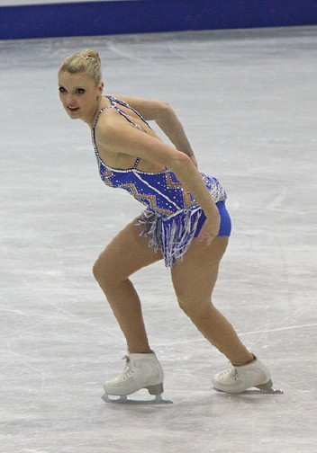 Joshi HELGESSON during her free skate at the 2009 World Junior Figure Skating Championships.